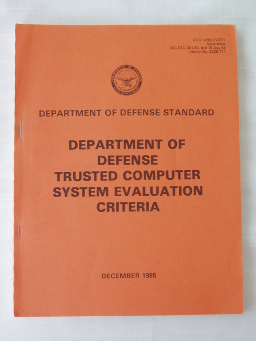 Luis F. Gonzalez, picture